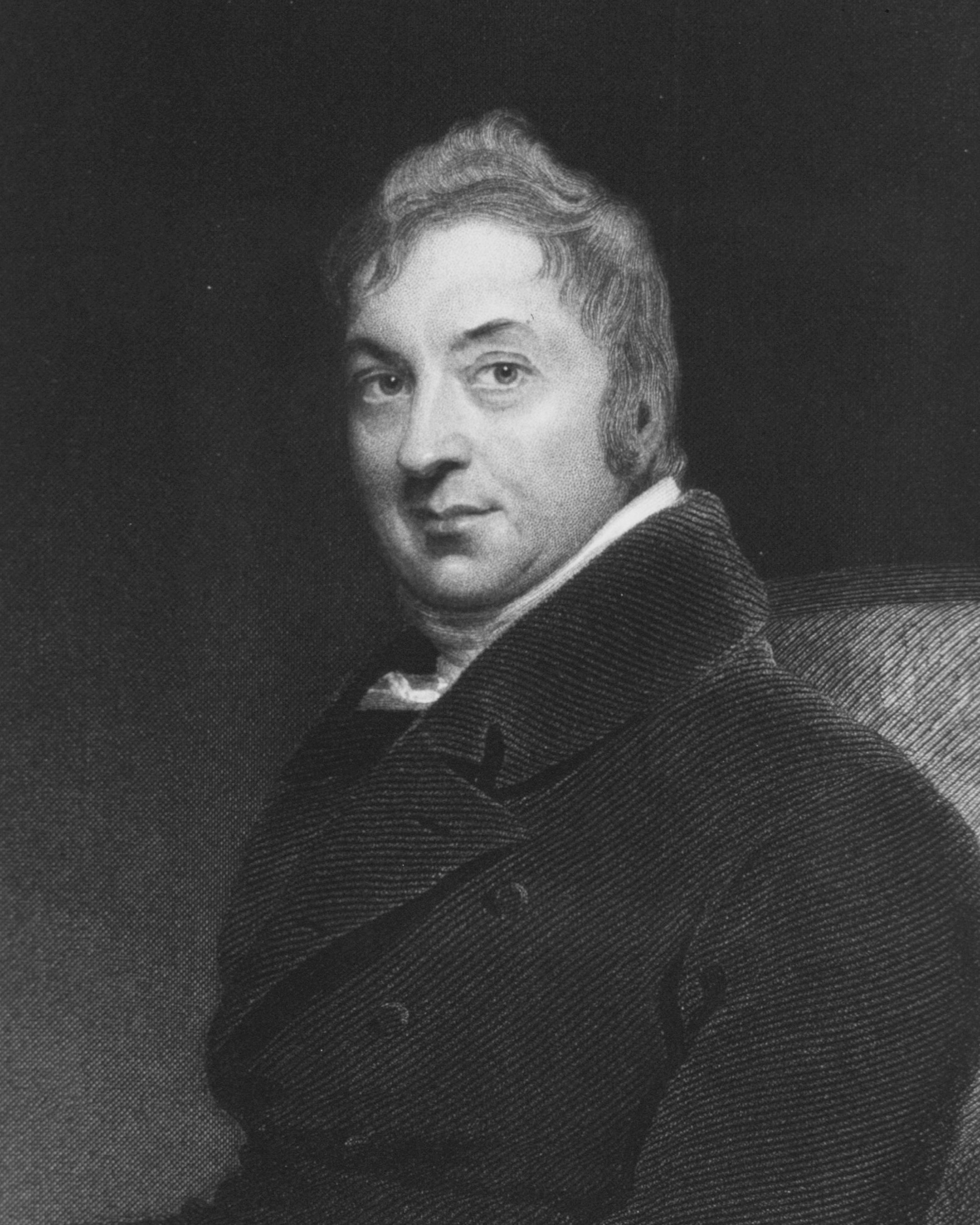 Edward Jenner (17 May 1749 – 26 January 1823)